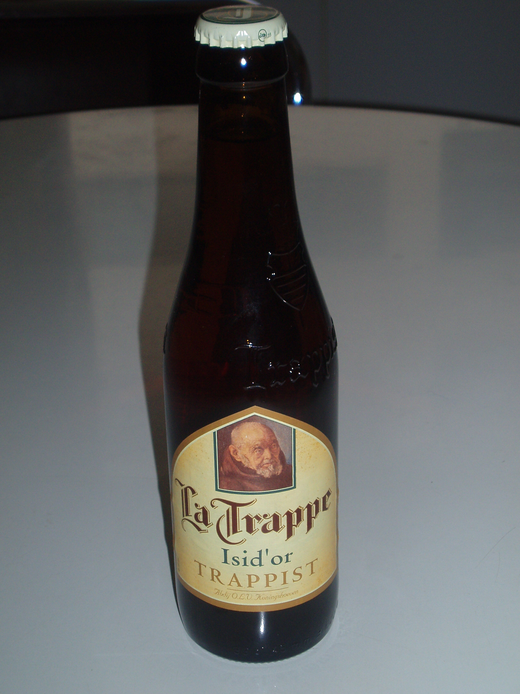 La Trapp Isid'or beer (Belgium version)